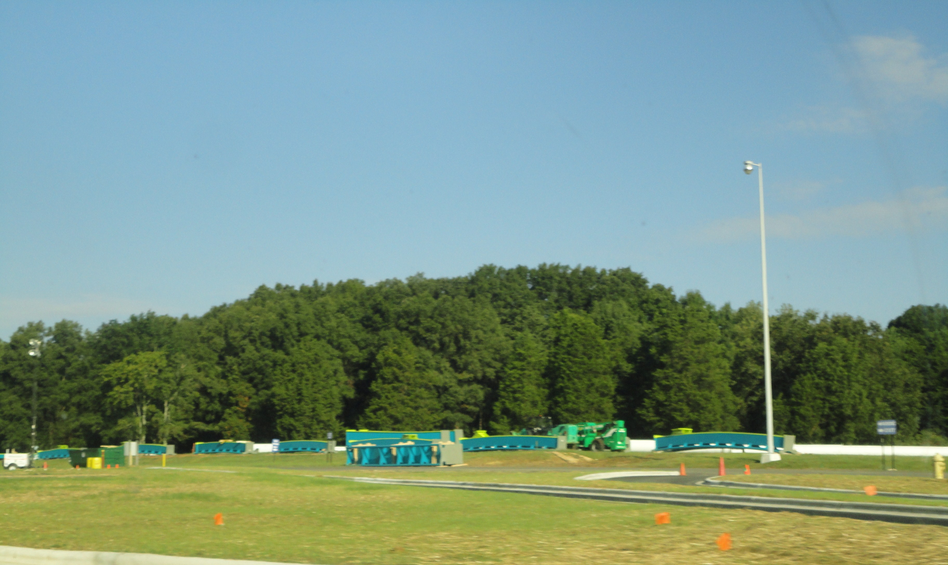 This is a photo of Fury 325 roller coaster waiting to be installed during construction of the attraction in 2014.